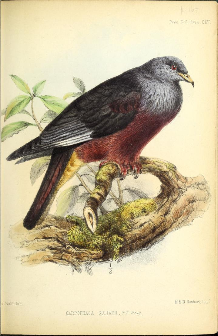 New Caledonian Imperial-pigeon or Goliath Pigeon Ducula goliath. Plate from Proceedings of the Zoological Society of London vol 27, 1859